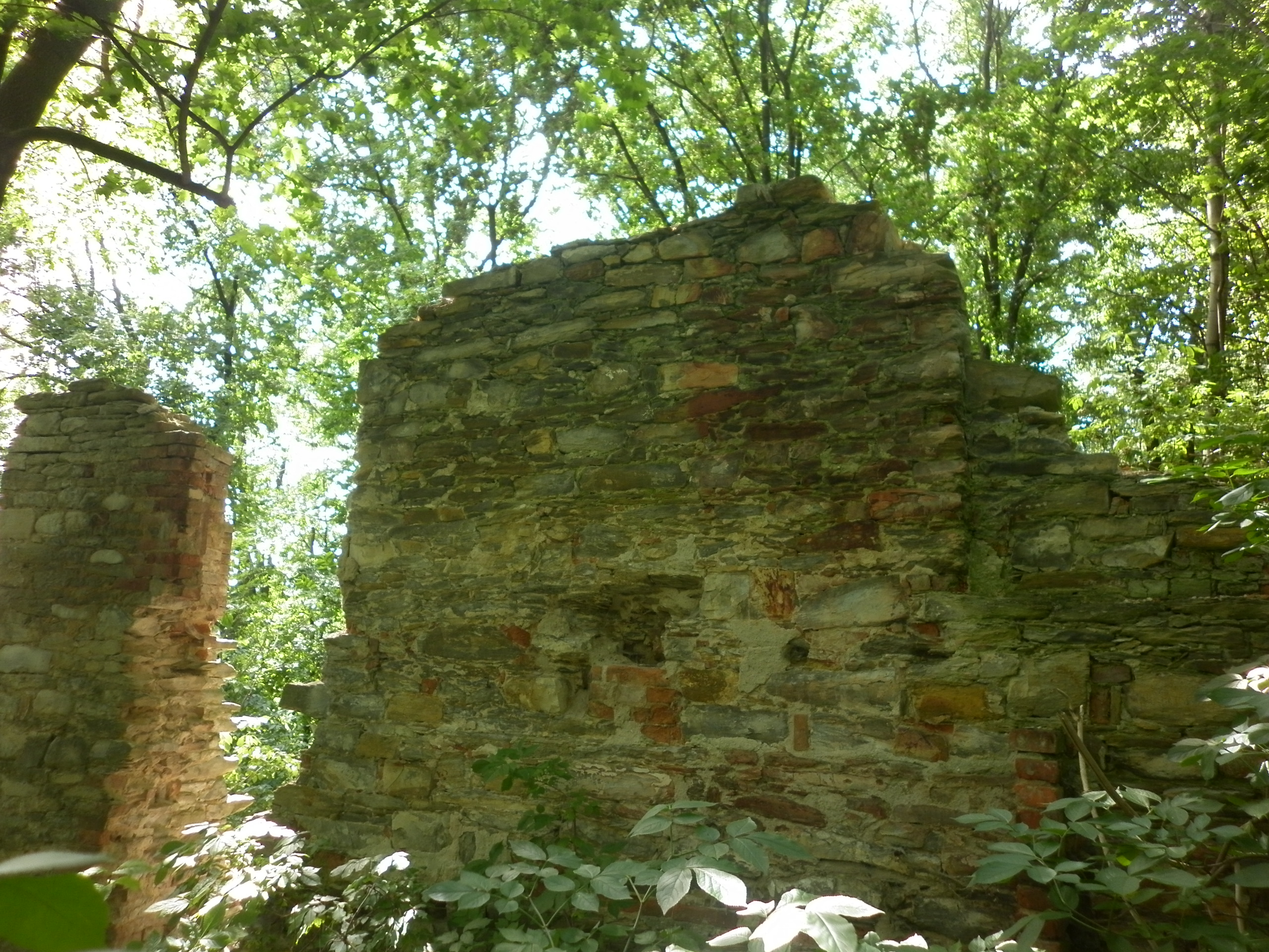 Ruins of an old hunting castle "Neulust" (from 18th century) situated in a forest nearby Uhersko, Pardubice District, Czech Republic. Demolished in 1908.